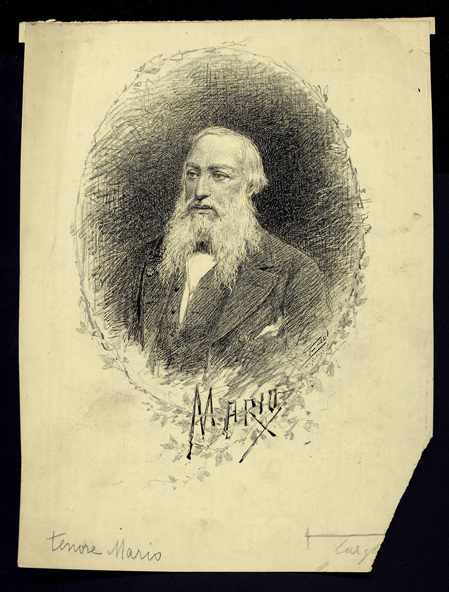 Portrait of Mario De Candia, tenor (1810-1883), before 1912.